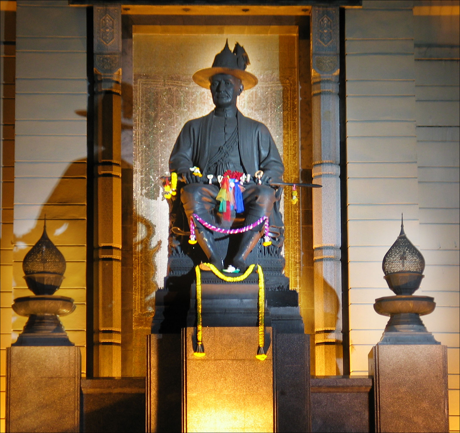 Illuminated statue of King Rama I. at Memorial Bridge, Bangkok, Thailand.